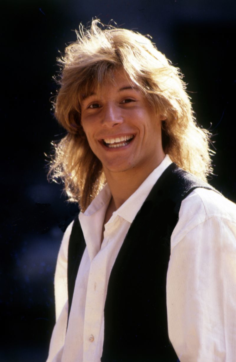 A young Claudio Caniggia during a session photo for El Gráfico